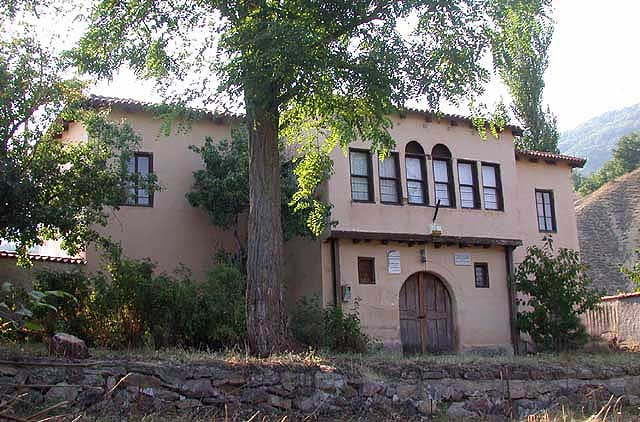 External view of Kottas Museum, image from the Captain Kottas Museum, Florina, West Macedonia, Greece